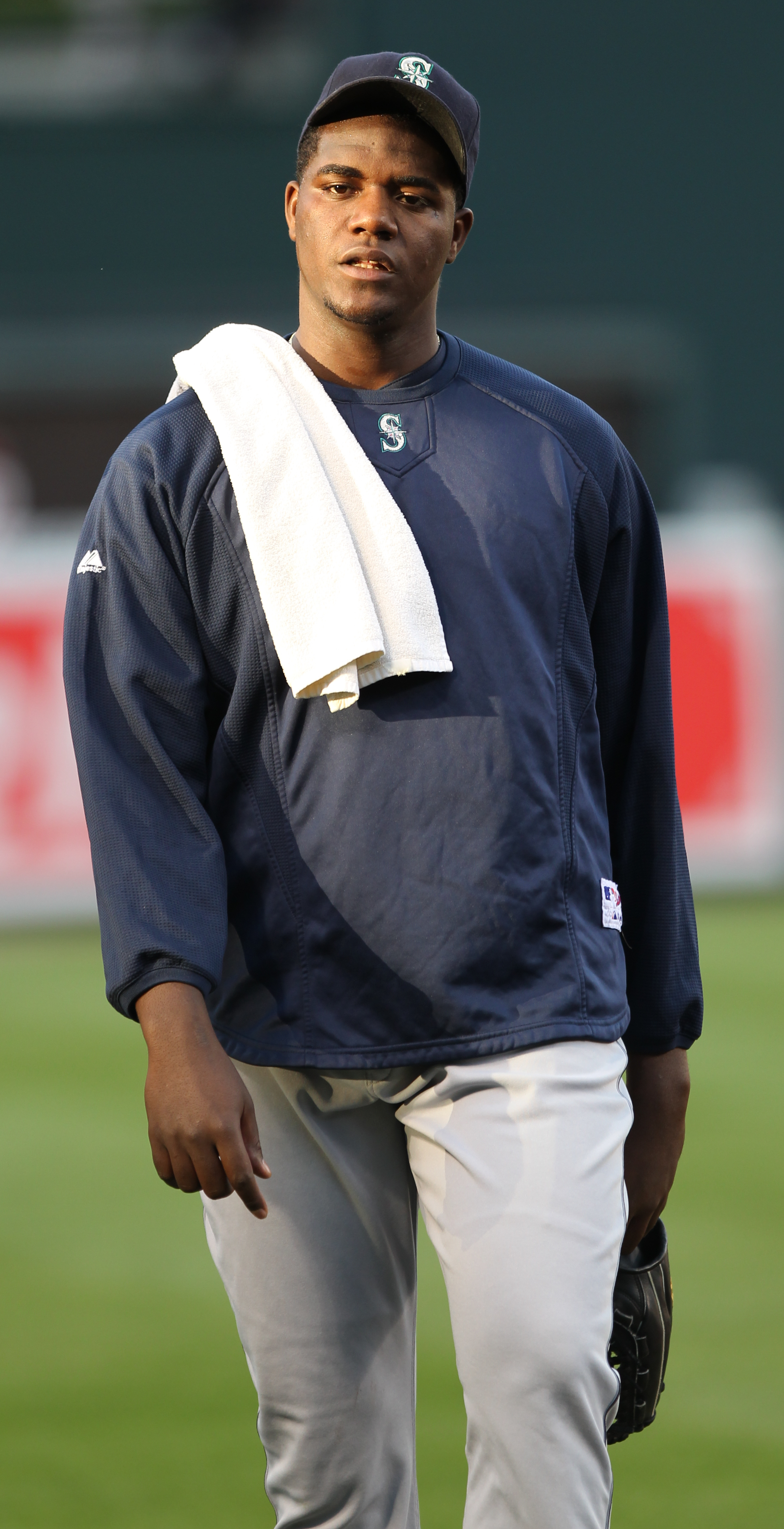 Seattle Mariners starting pitcher Michael Pineda (36) before the game against the Baltimore Orioles on May 10, 2011 at Oriole Park at Camden Yards.